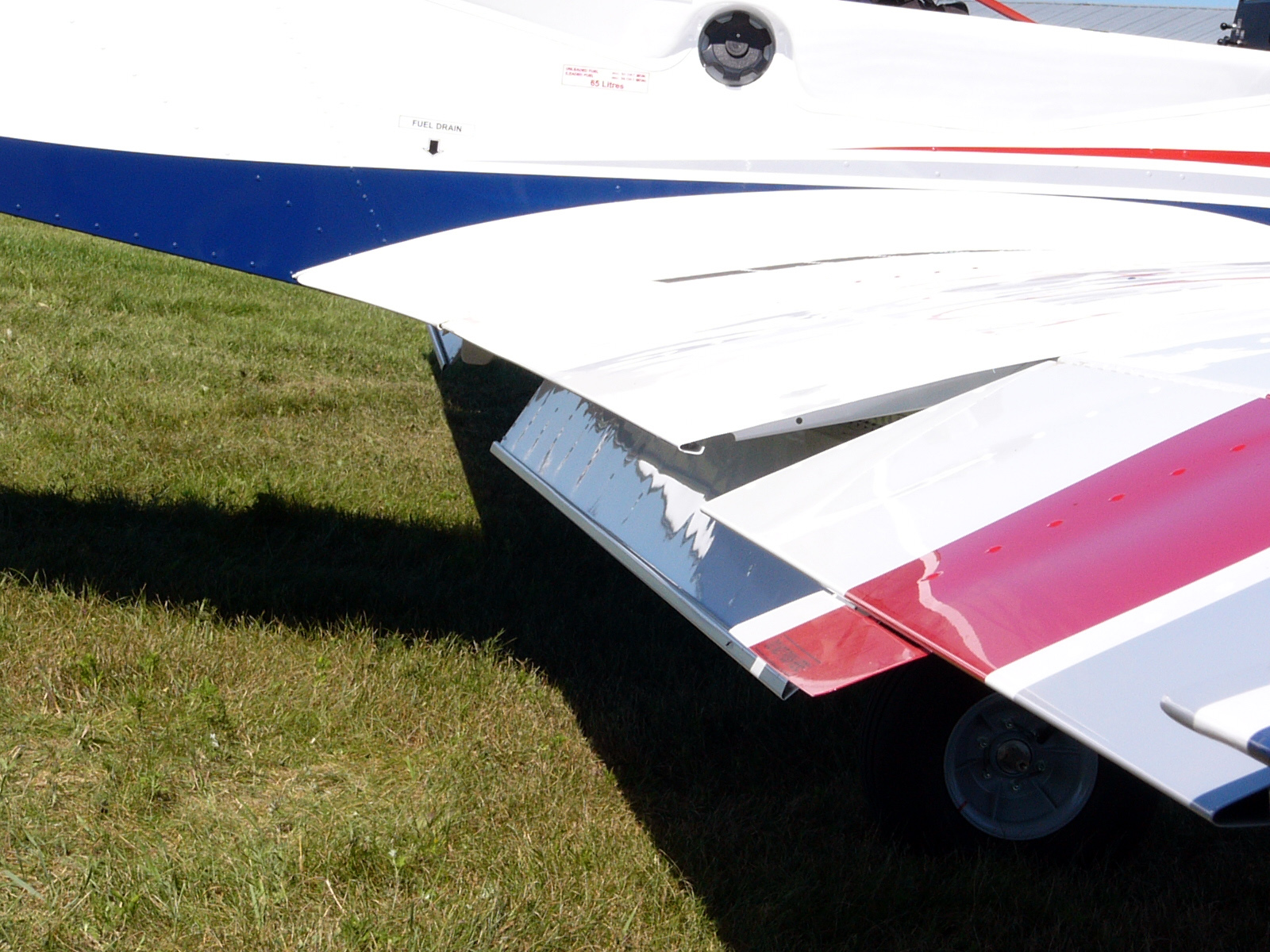 Evektor SportStar detail showing the aircraft's unique split flap